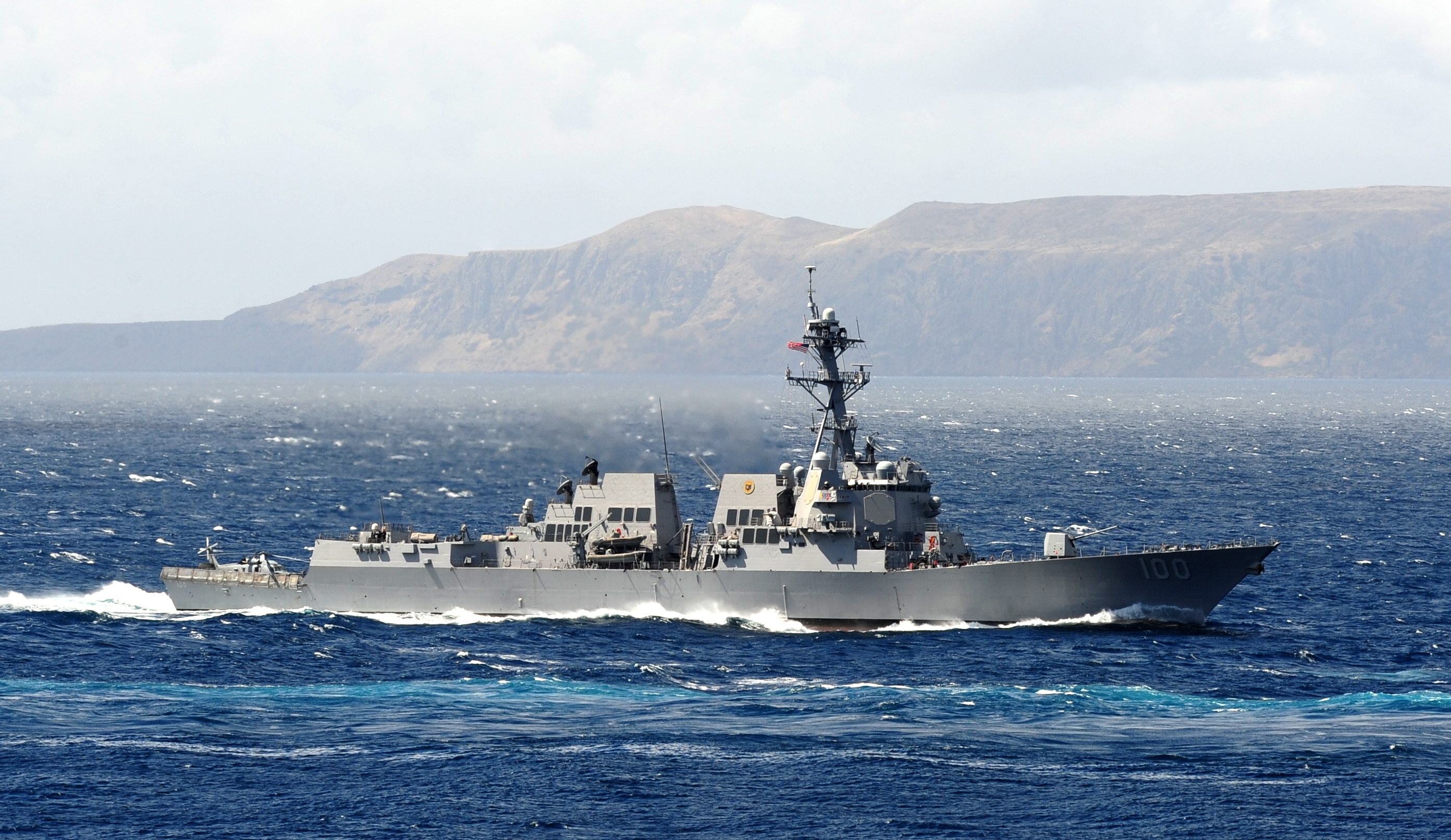 PACIFIC OCEAN (May 18, 2011) The Arleigh Burke-class guided-missile destroyer USS Kidd (DDG 100) is underway in the Pacific Ocean. Kidd is part of the John C. Stennis Carrier Strike Group and is participating in a composite training unit exercise off the coast of Southern California. (U.S. Navy photo by Mass Communication Specialist 3rd Class Crishanda K. McCall/Released)